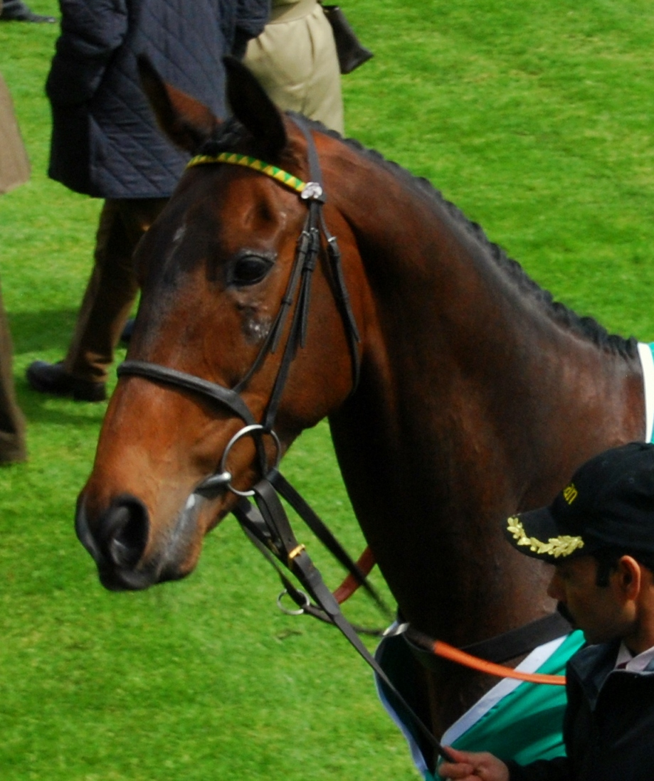 Parade of Champions, Sandown Park, April 2014